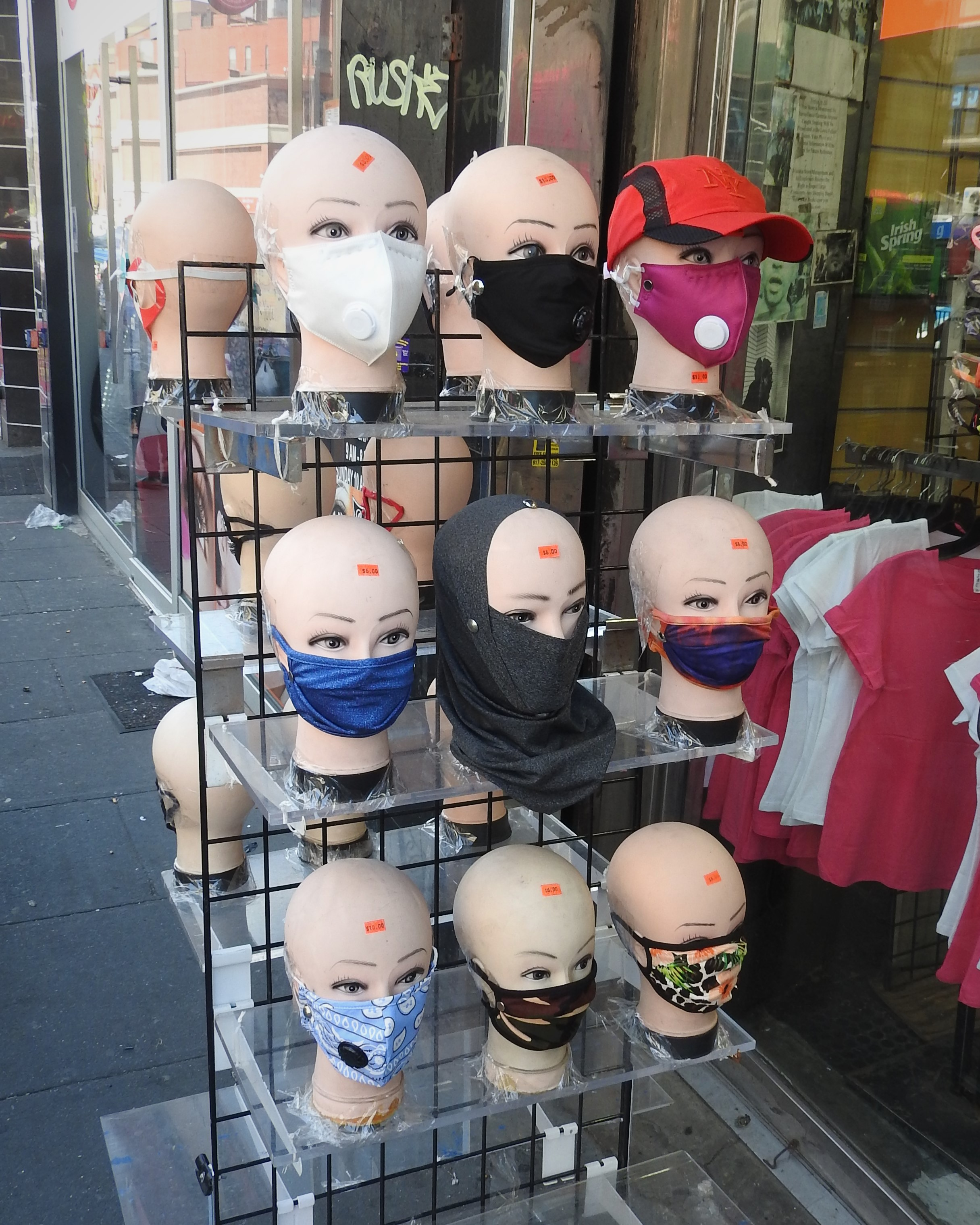 Looking east at display of pandemic protection